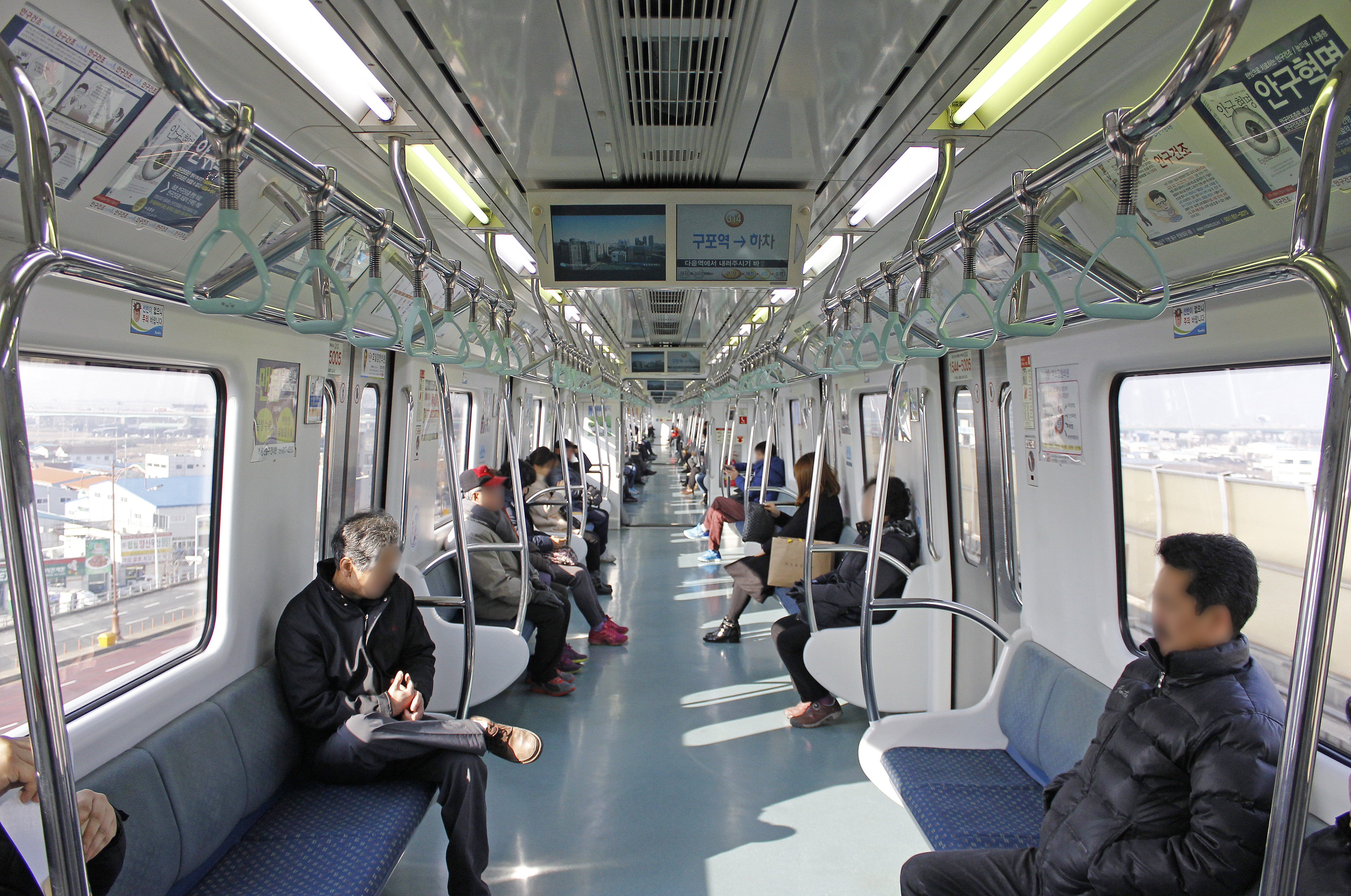 Busan Metro Line 3 EMU Interior